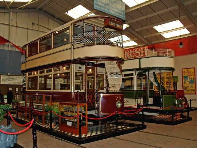 Leicester tram No.76 at Crich Tramway Village. Derby Corporation Tramways No. 1 is in the background.